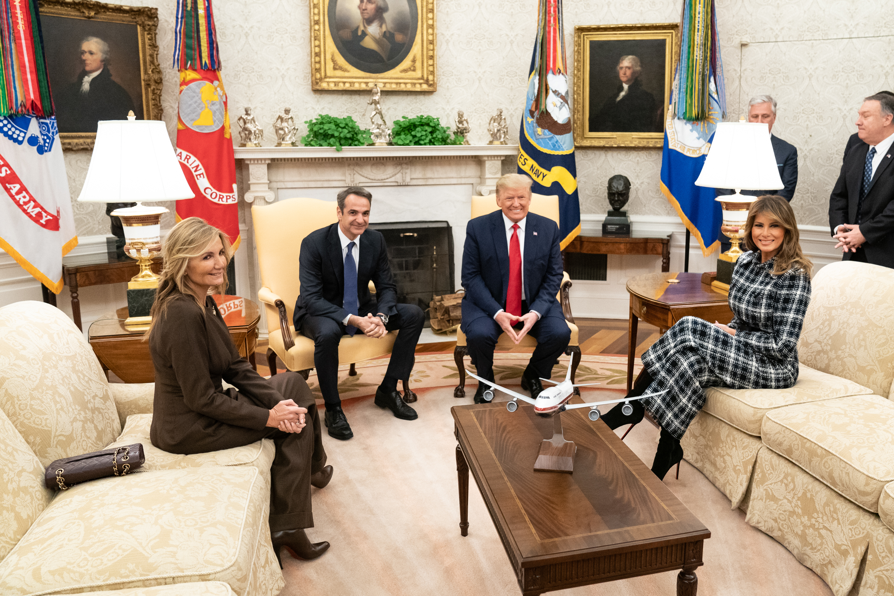 President Donald J. Trump and First Lady Melania Trump pose for a photo with Greek Prime Minister Kyriakos Mitsotakis and his wife Mrs. Mareva Grabowski-Mitsotakis Tuesday, Jan. 7, 2020, in the Oval Office of the White House. (Official White House Photo by Andrea Hanks)